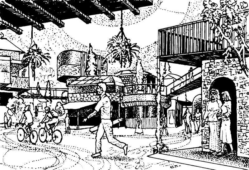 Village in Island One.